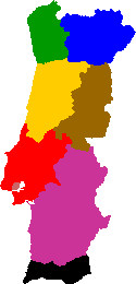 Postal regions of Portugal, issued by CTT (Portuguese Postal System) --maf 21:43, 12 August 2006 (UTC)